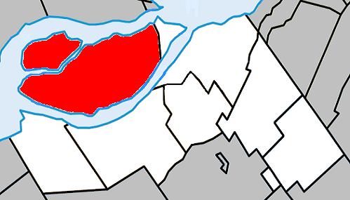 Location of Salaberry-de-Valleyfield, Quebec within Beauharnois-Salaberry Regional County Municipality.